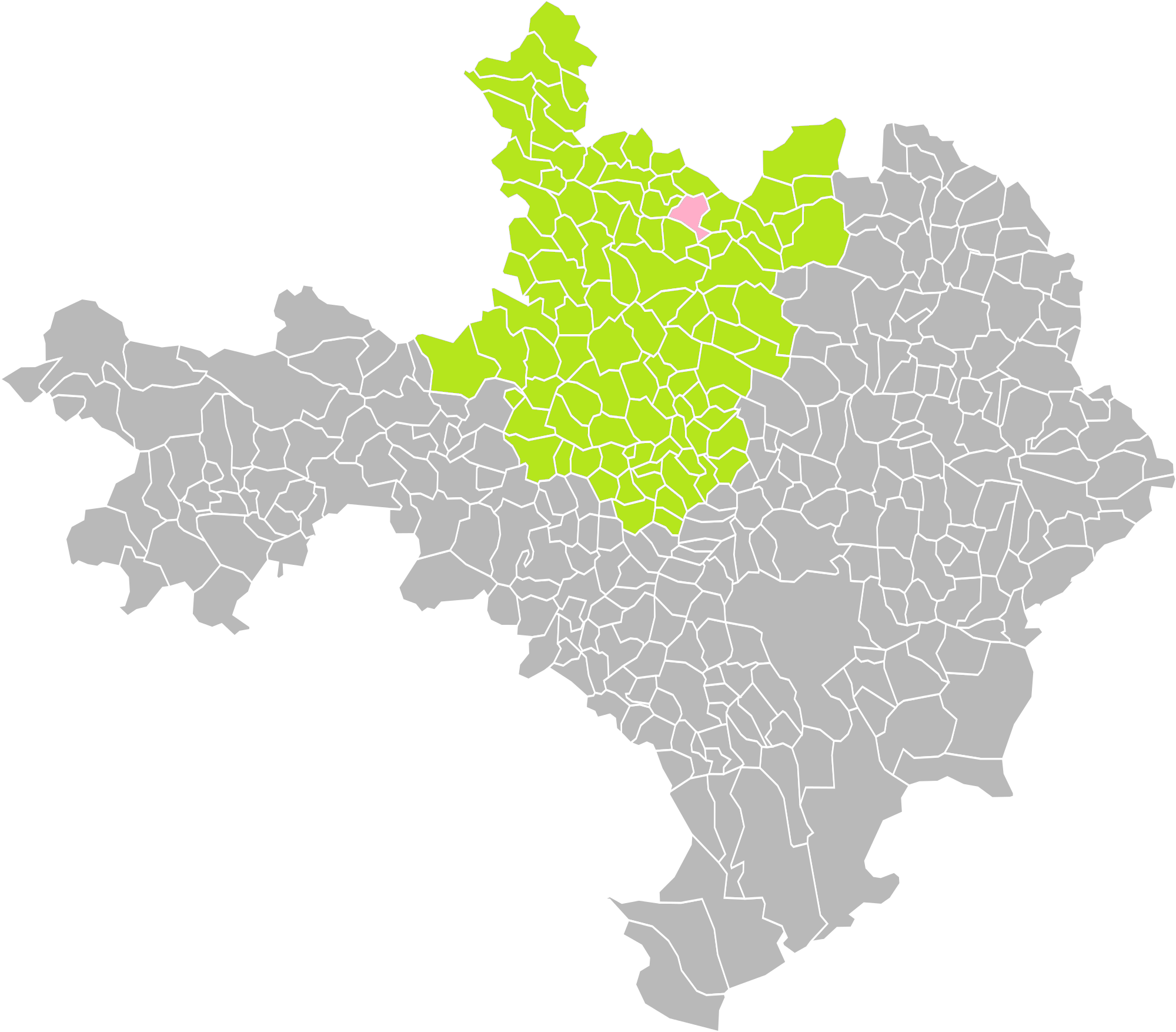 Location of the commune of Saint-Ambroix in the arrondissement of Alès (Gard)